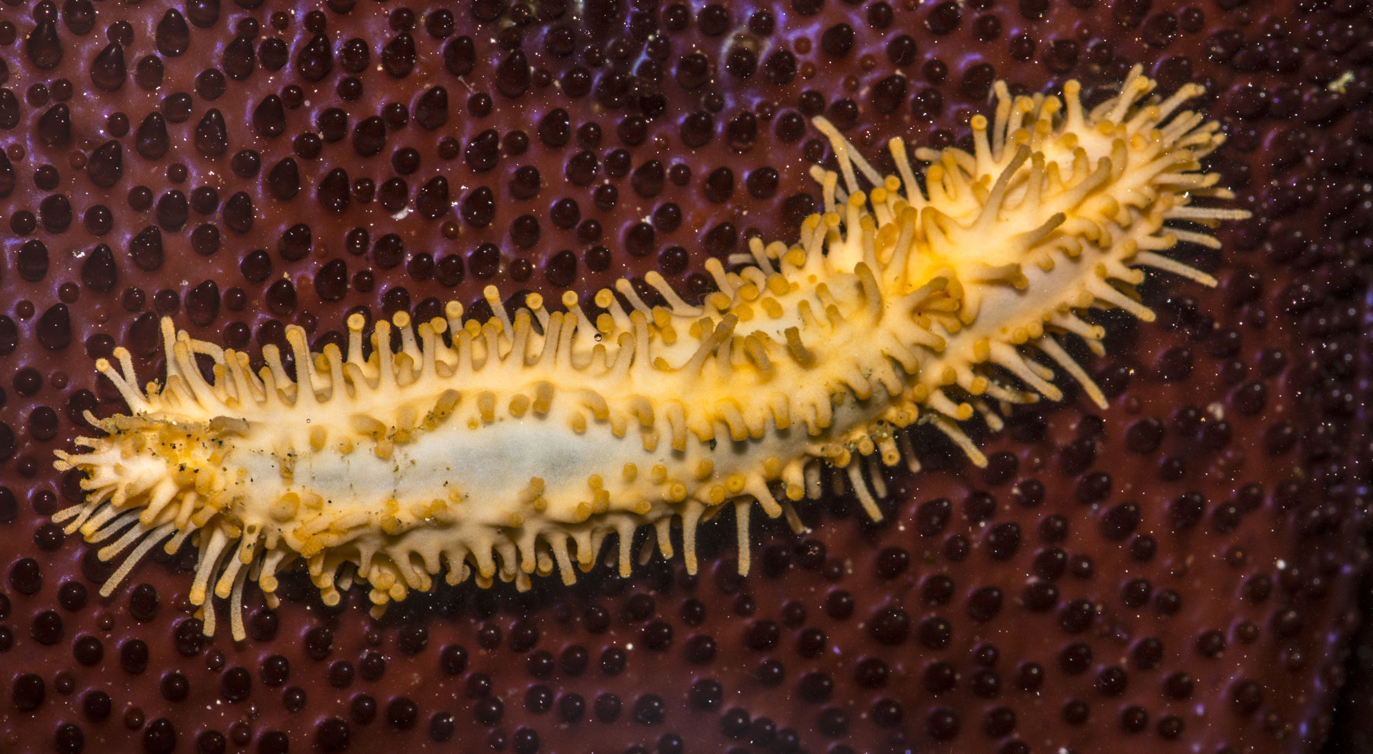 Not seen all the time : Stiff-footed Sea Cucumber (Eupentacta quinquesemita). Hard to believe they are an Echinoderm. The Sea Cucumber is on the algae called Turkish Towel, Gigartina. Marlin found this one and we decided to use the Gigartina for the background.